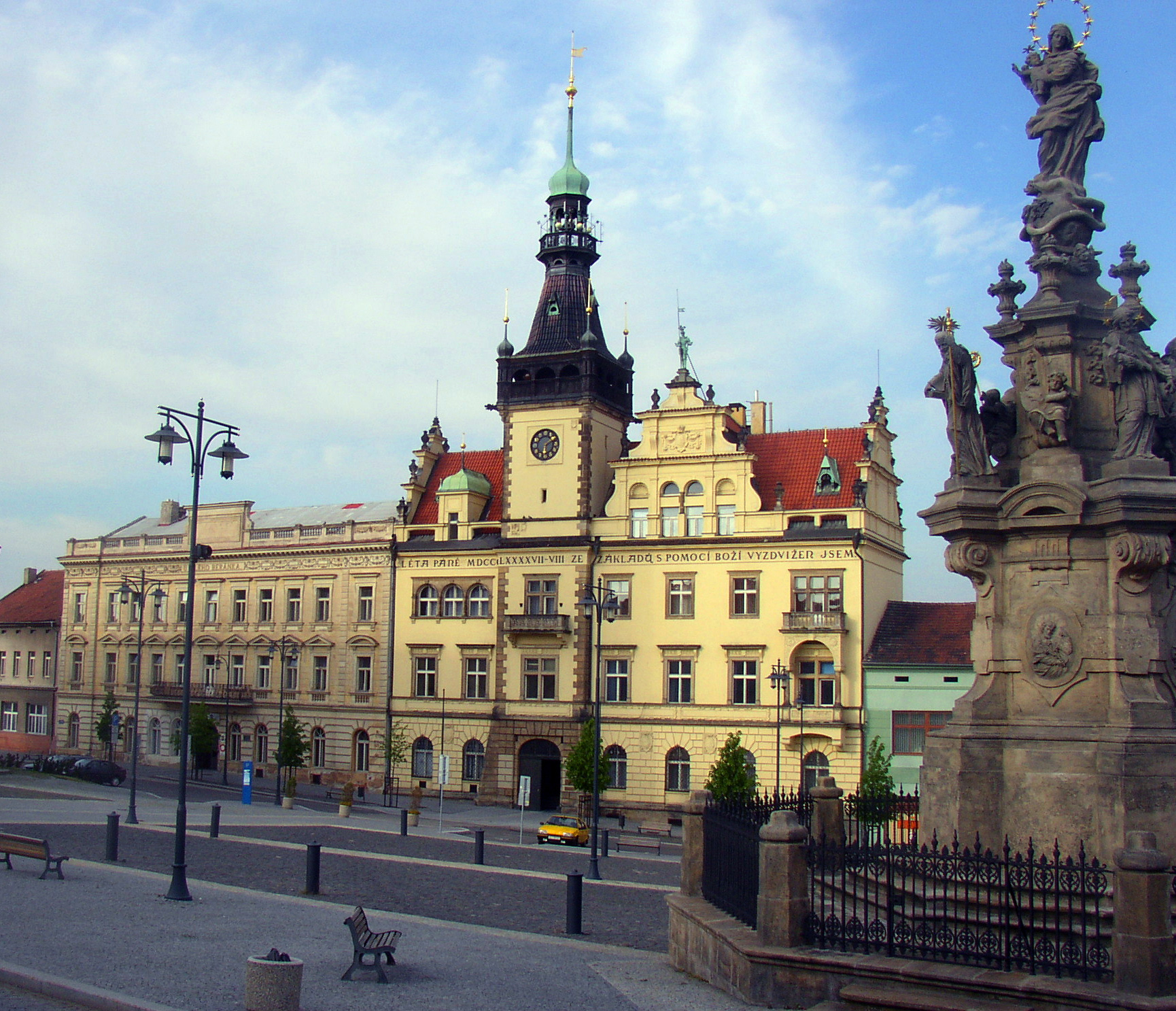 Kladno, Czech Republic, Mayor Pavel Square, town hall.